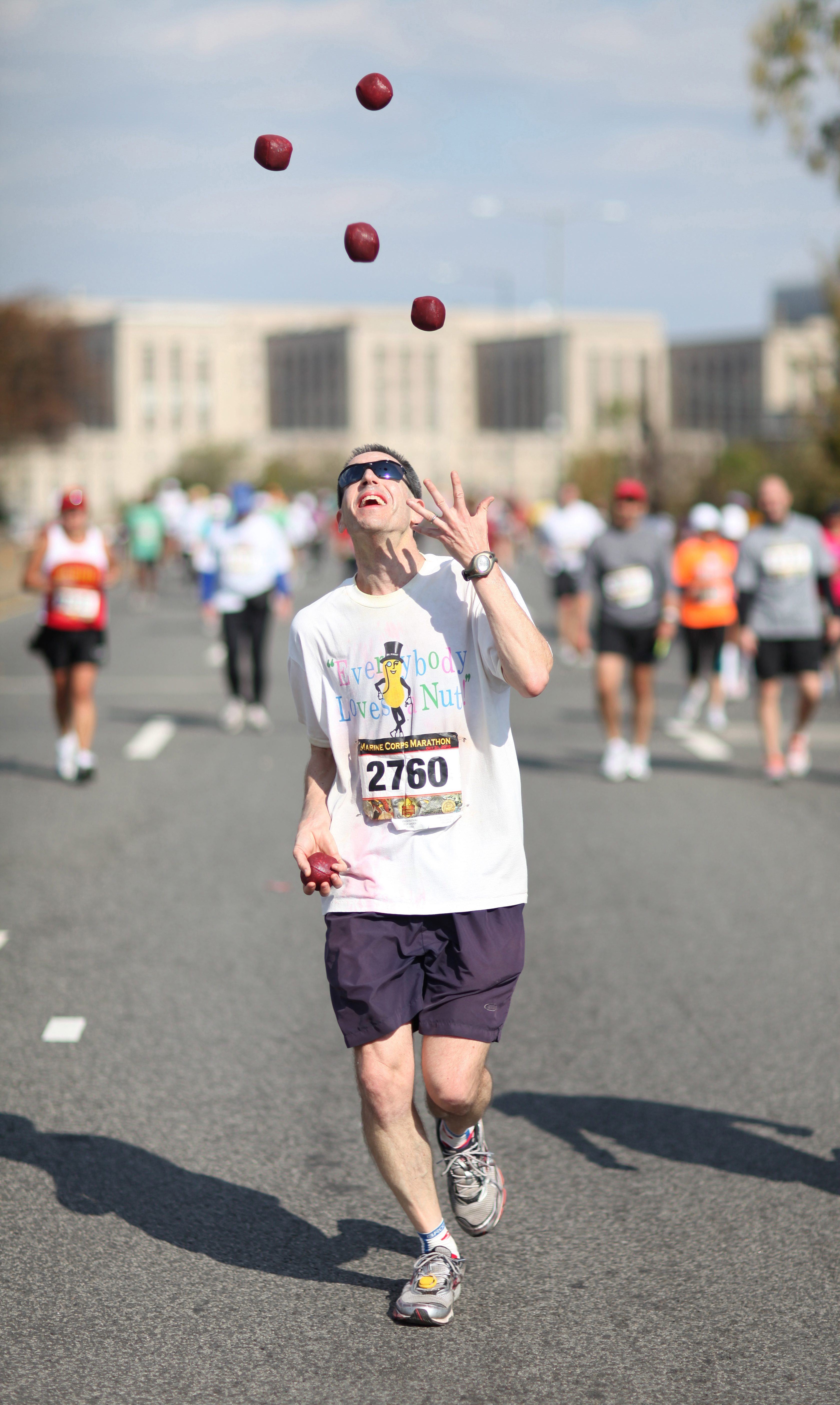 A runner juggles past the 20 mile marker during the 35th Marine Corps Marathon Oct. 31, 2010. More than 30,000 runners particapated in the 26.2-mile run through the nation's Capital.